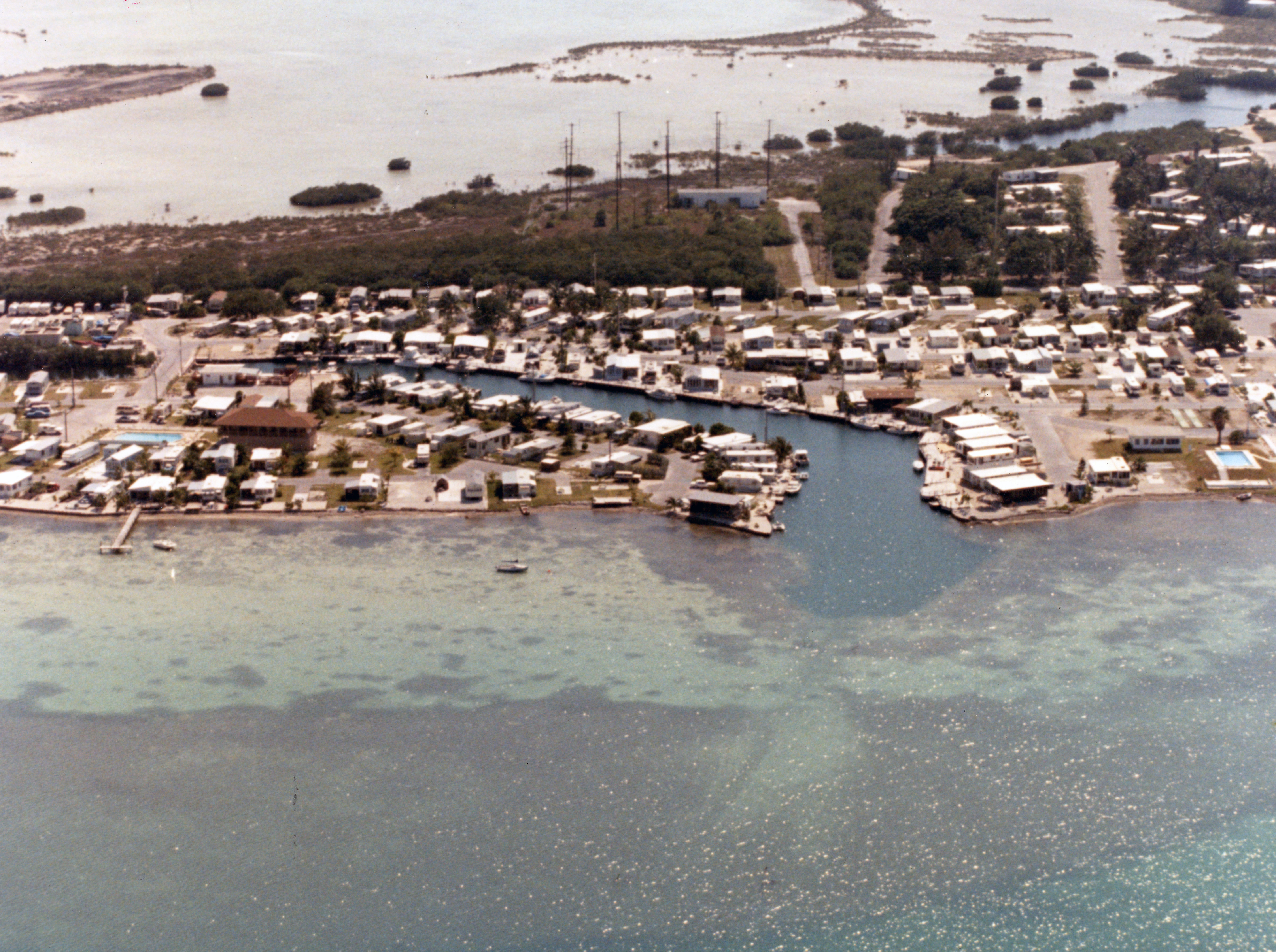 An aerial of Geiger Key Campground. Photo taken by the Federal Government on October 7, 1987. From the Wright Langley Collection.